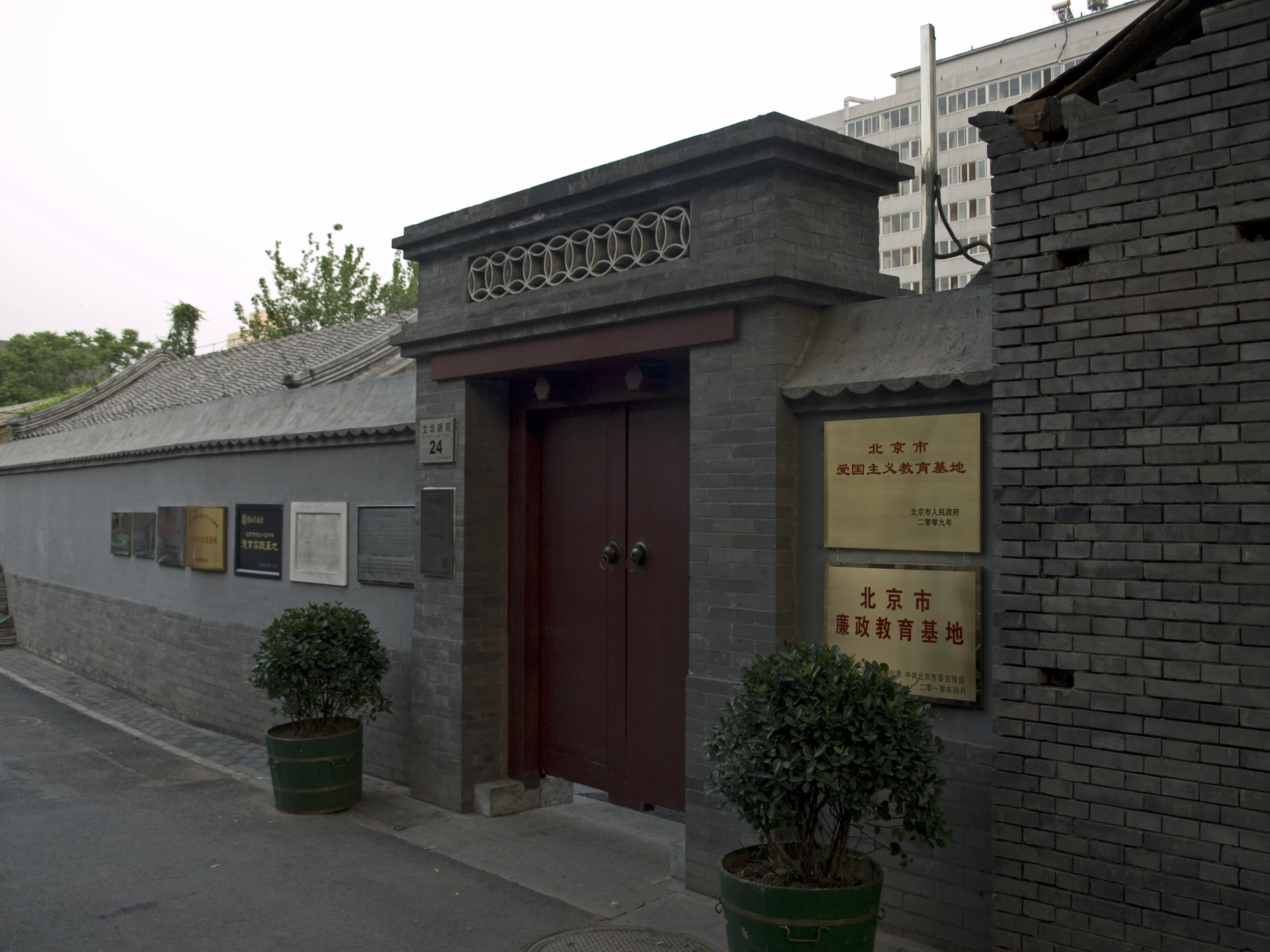 Li Dazhao museum, 24 Wenchang Hutong